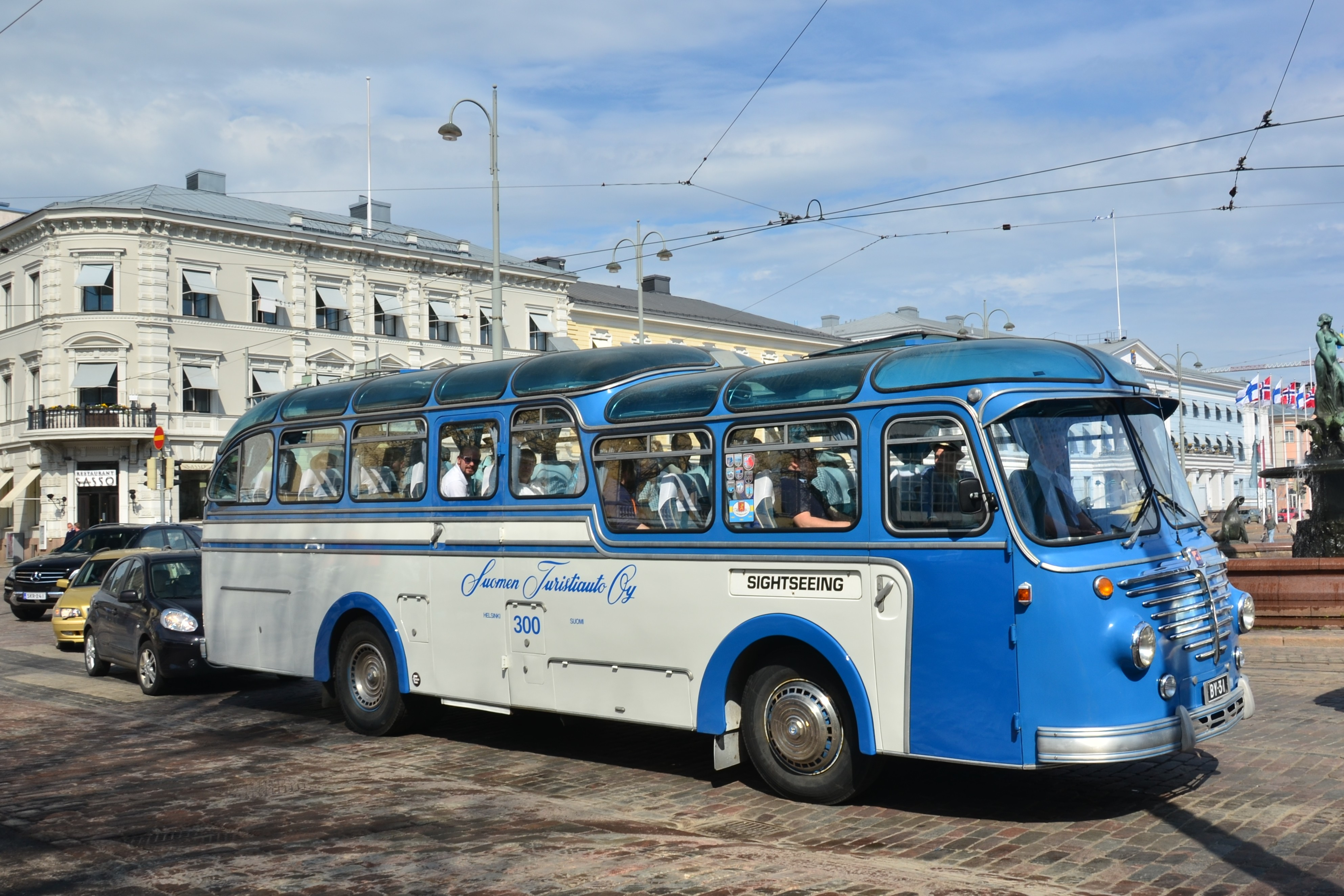 Suomen Turistiauto Büssing TÜ 4500 / Emmelmann bus (BY-31, 1960) in Helsinki, Finland